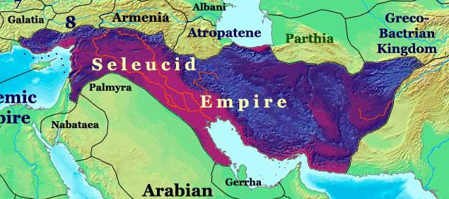 Map of Seleucid Empire in 200 BC